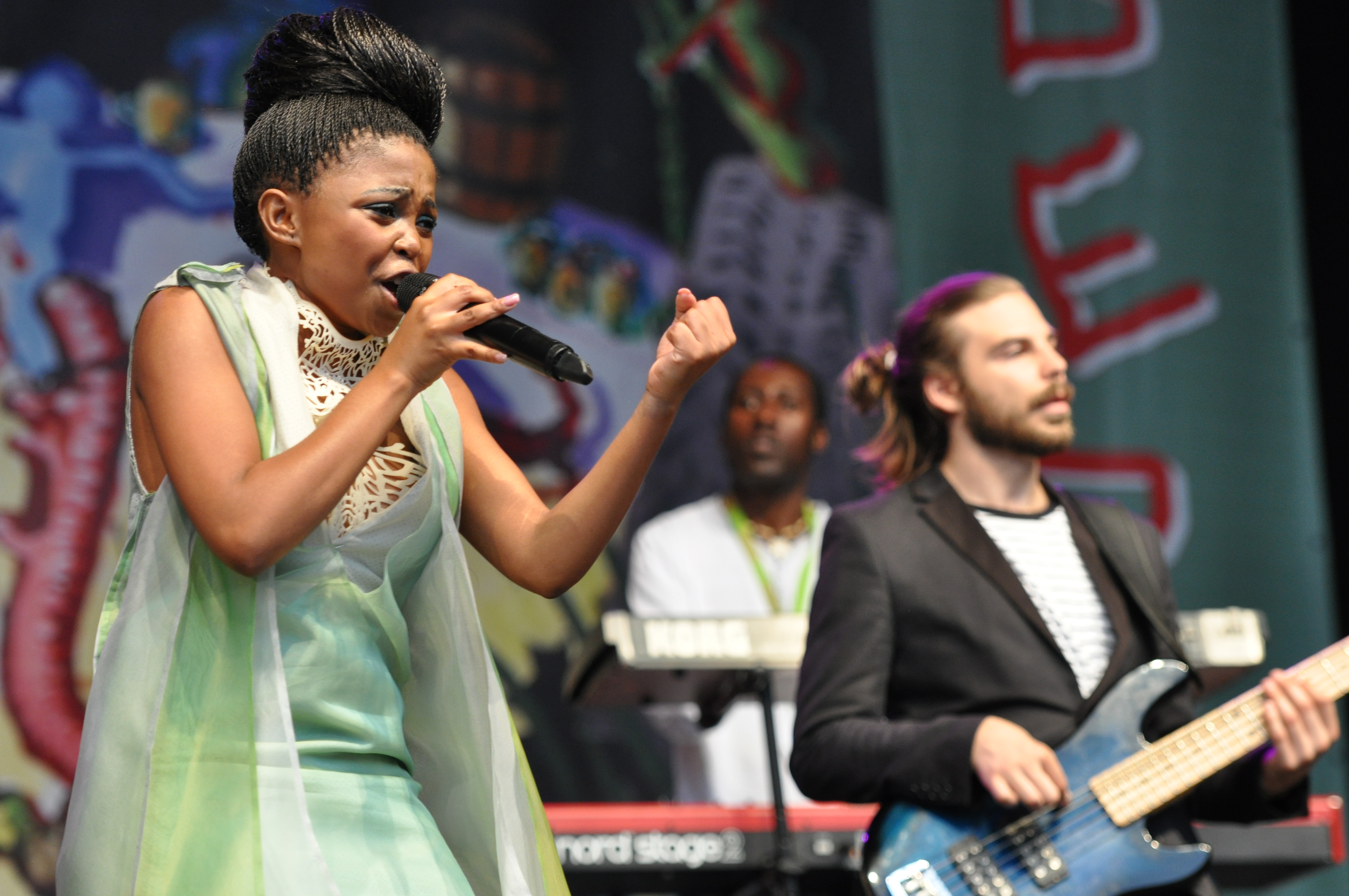 Nomfusi (Republic of South Africa) with bass player and keyboard player, appearance at the 39th music festival "Bardentreffen" 2014 in Nuremberg, Germany, Hauptmarkt stage